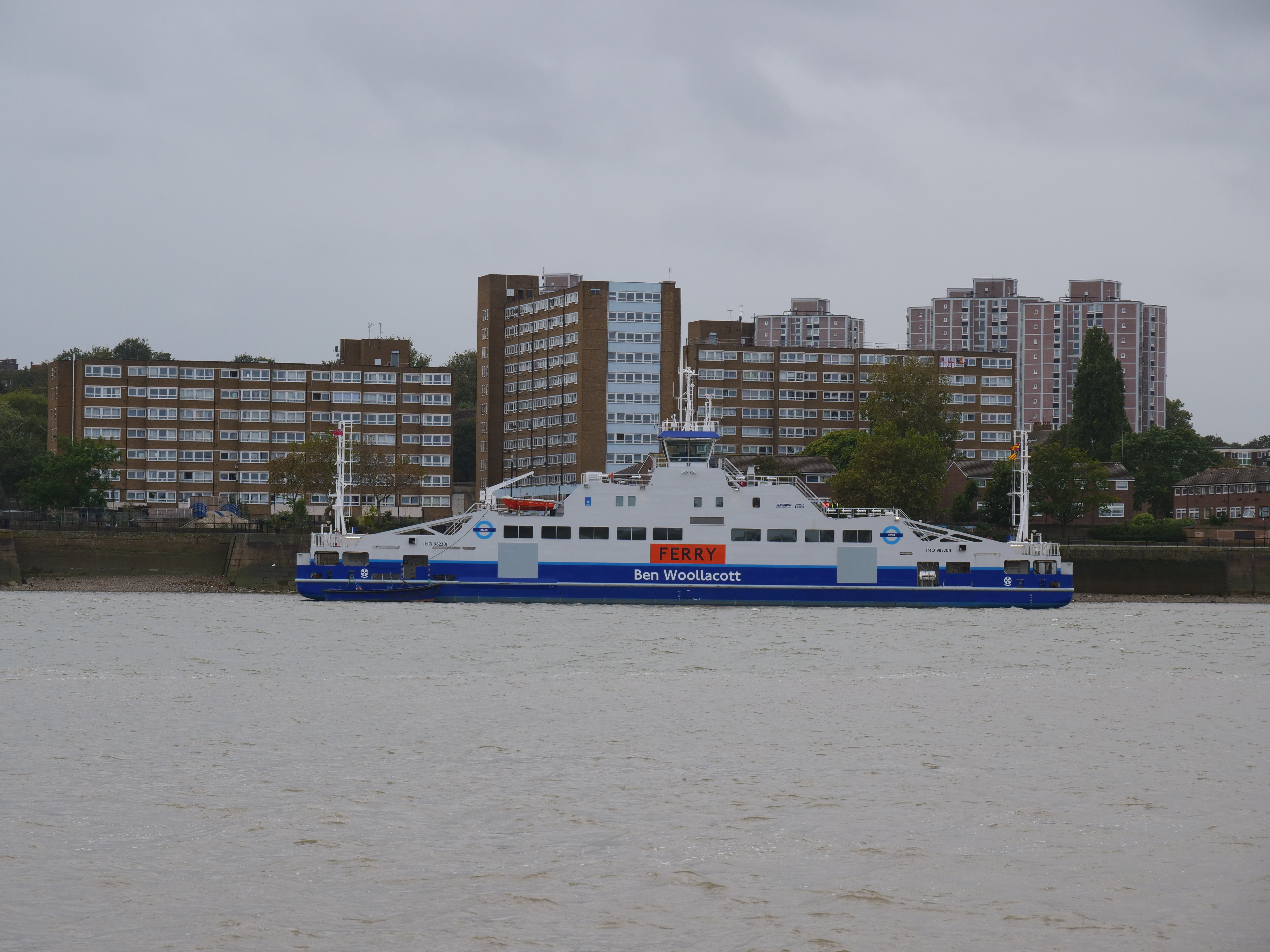 Blue and white ship in the Thames with tower blocks in background